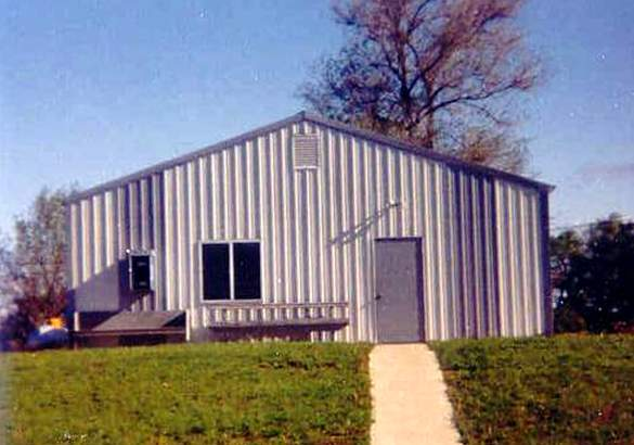 Pollock, Missouri Community Building as it appeared circa 1994. An addition to the right side of the building has since been added.